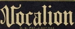 Logo of US record label Vocalion Records during the 1920s.